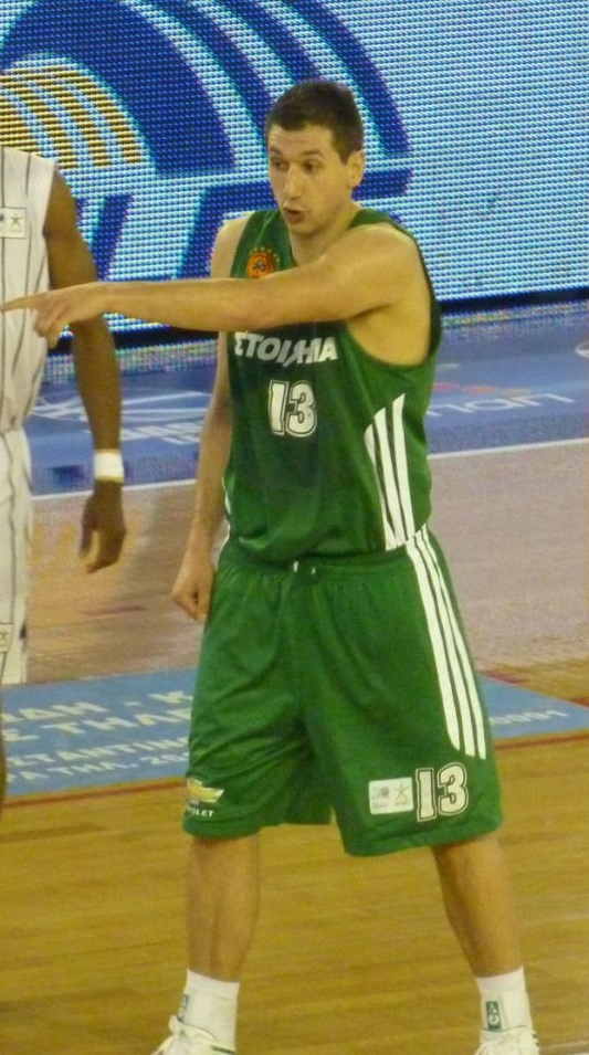 Dimitris Diamantidis against Apollon Patras, May 11, 2013.